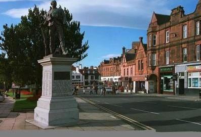 Robert Burns Statue Square at the top of Ayr High Street. Sculpture by G.A. Lawson.